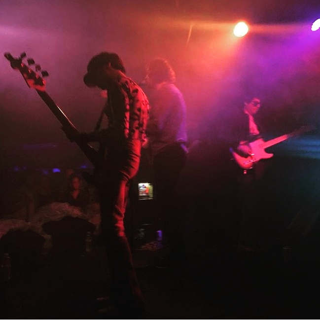 part time live performance los angeles